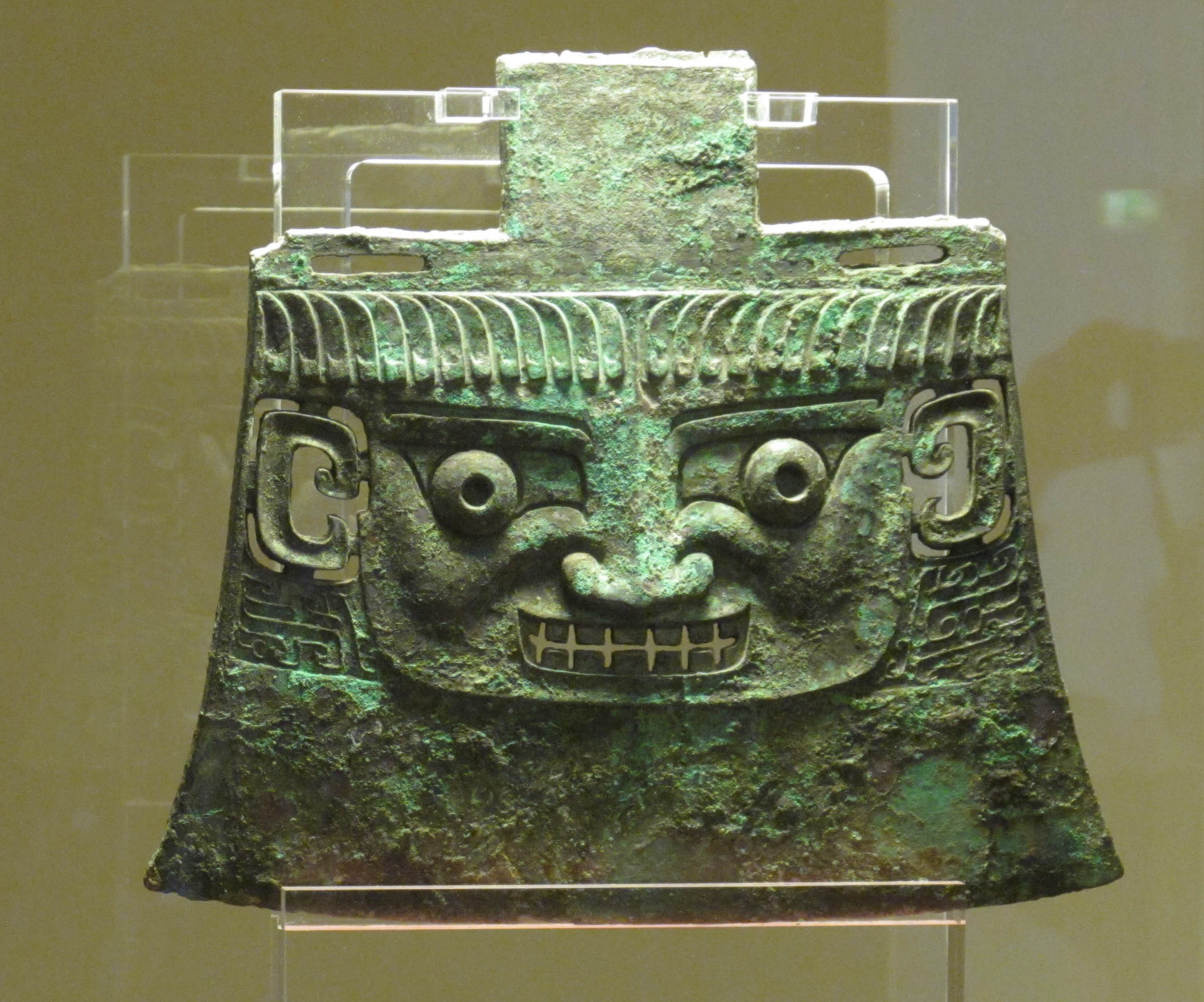 Yue-type ceremonial axe. Bronze, H. 30.4 cm, 4.8 kg. Shang dynasty, Anyang period, 12th / 11th century BC. Found in Xincun, Junxian, Henan. Museum für Asiatische Kunst.